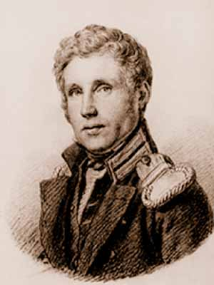 The Baltic German navigator in Russian service Otto von Kotzebue (1787-1846)